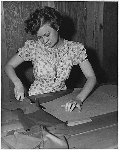 NYA: Minnesota:young woman learning to sew.